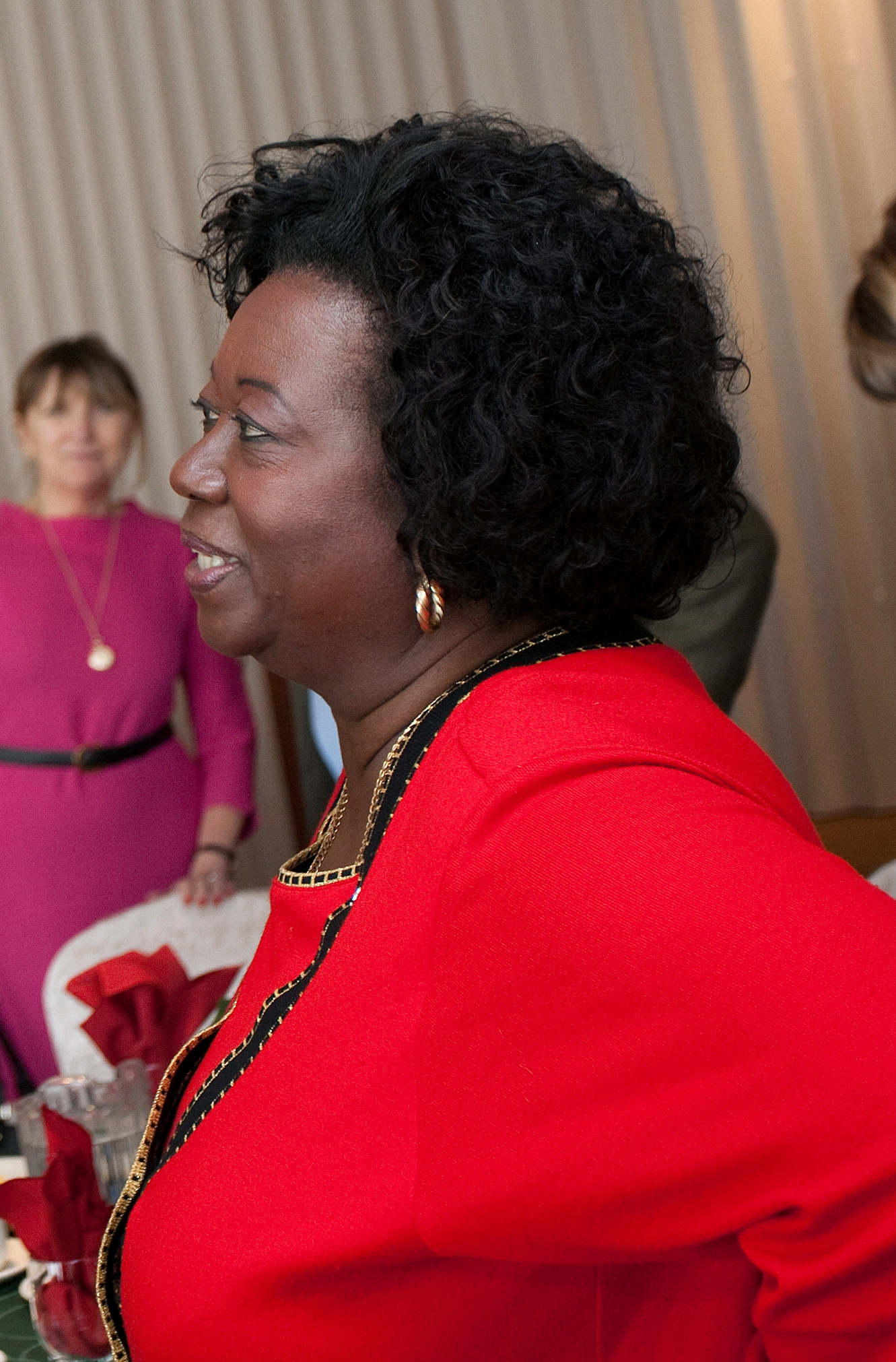 Former Etobicoke—Lakeshore M.P. Jean Augustine, at a Christmas function for Michael Ignatieff, Liberal Party leader and her successor as Member of Parliament for Etobicoke—Lakeshore. Toronto, Ontario, Canada.